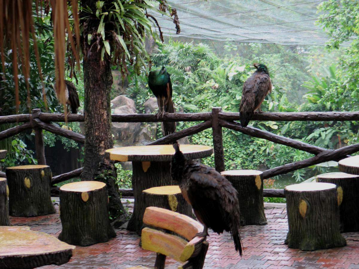 KLBP free fly